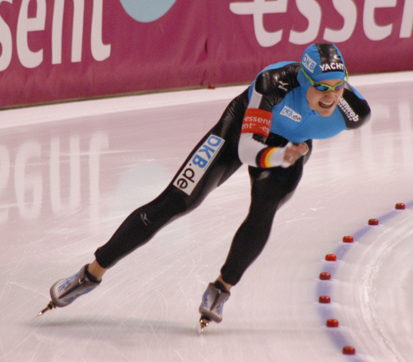 Marco Weber (GER) in action at a World Cup Speedskating in Heerenveen, the Netherlands.